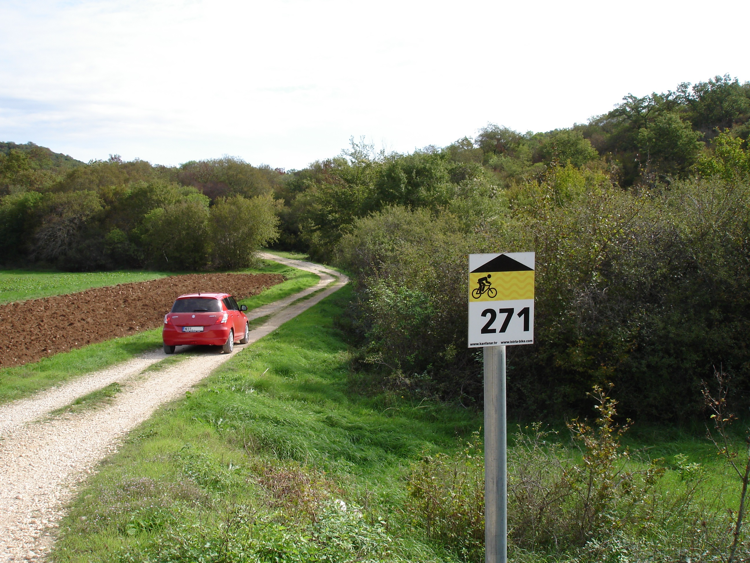 Cycleroute sign on a dirt road in Lim (Croatia)